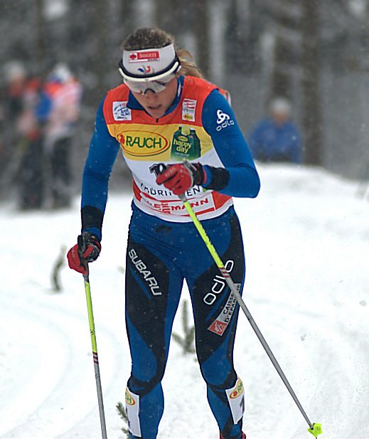 Celia Bourgeois at the Tour de Ski 2010 in Oberhof